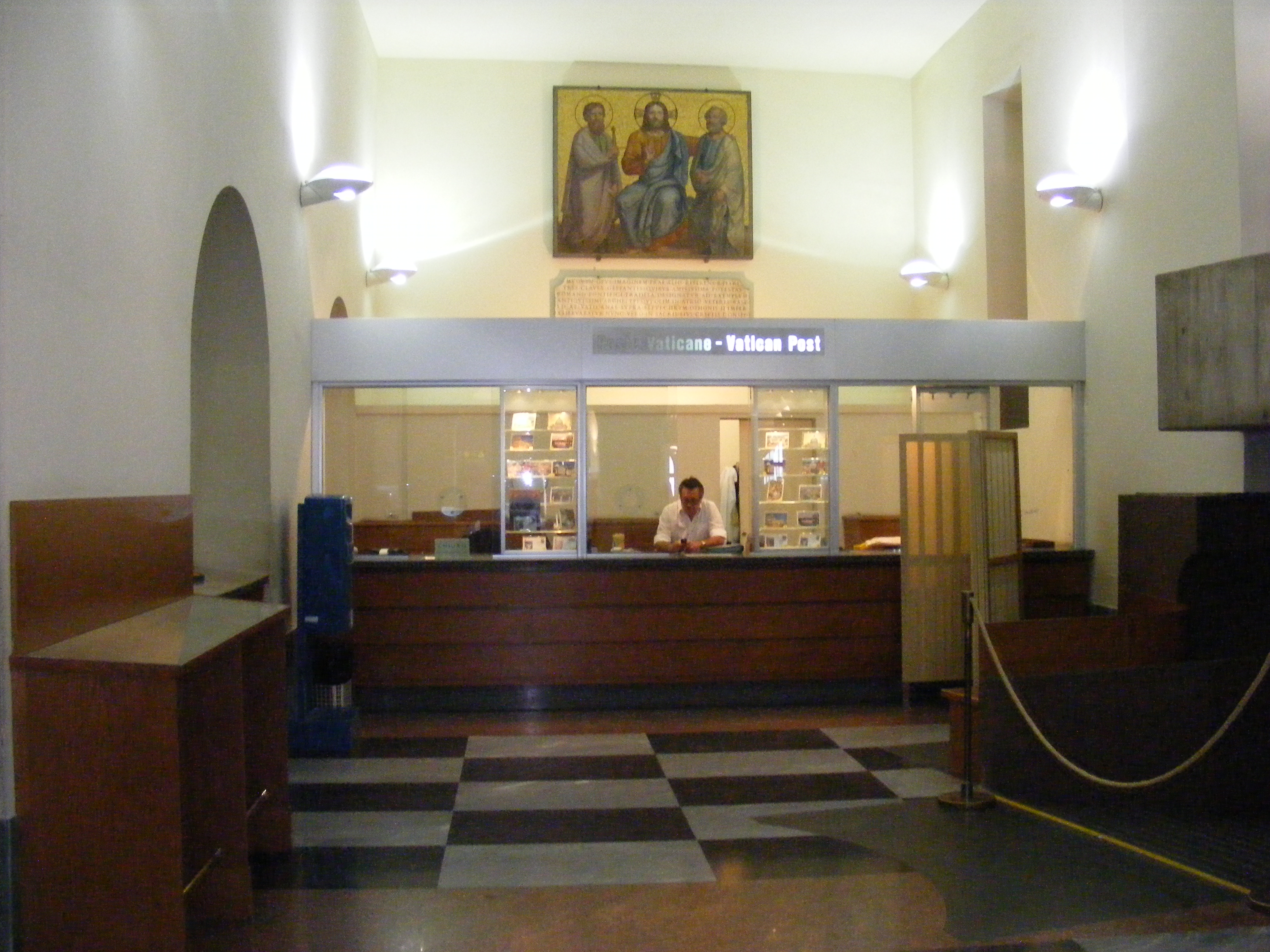 Città del Vaticano - Post office in the Vatican Museum.